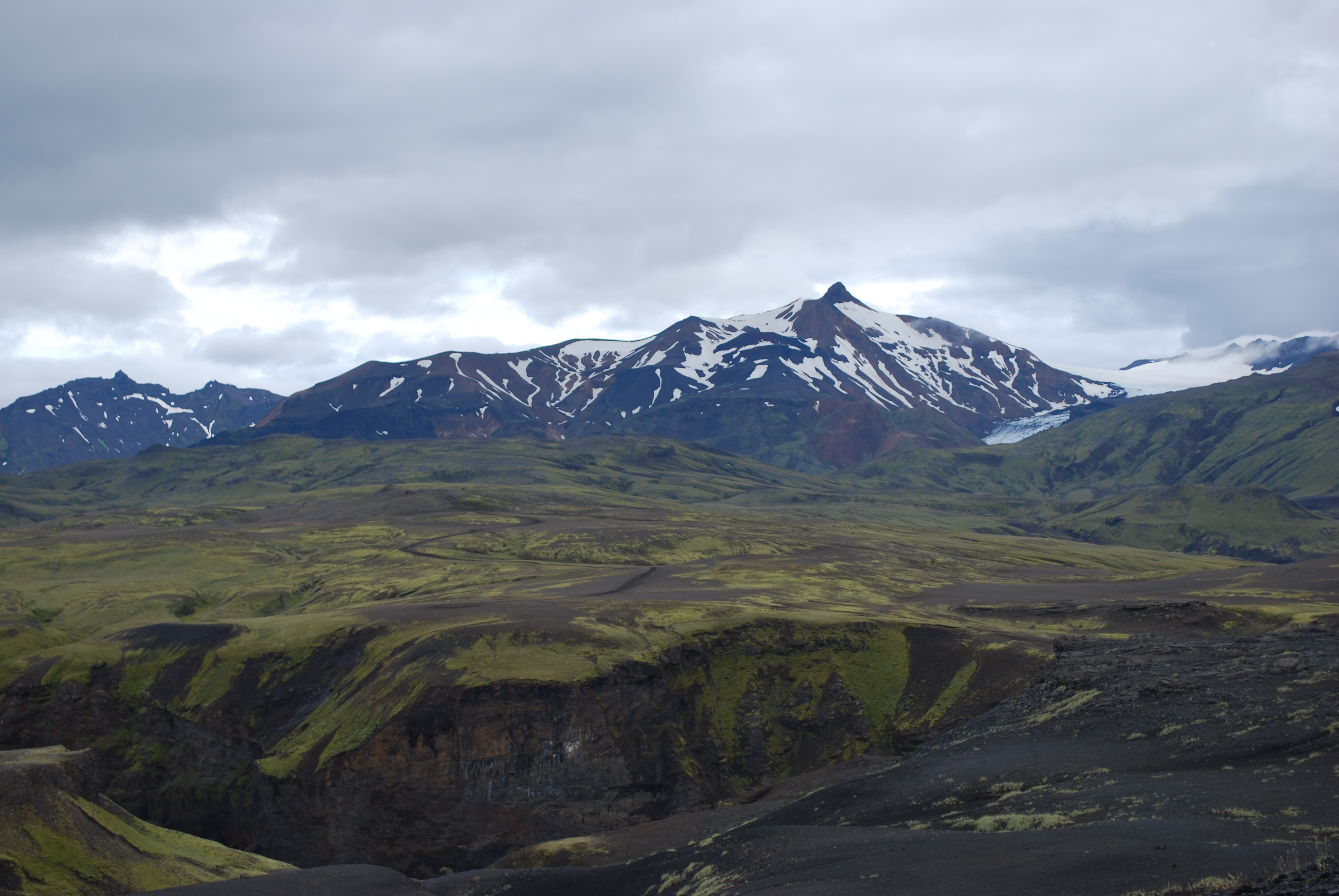 Landscape in Emstrus area, imaged during Laugavegur, Iceland. Tindfjallajökull glacier - Google Maps - Google Earth